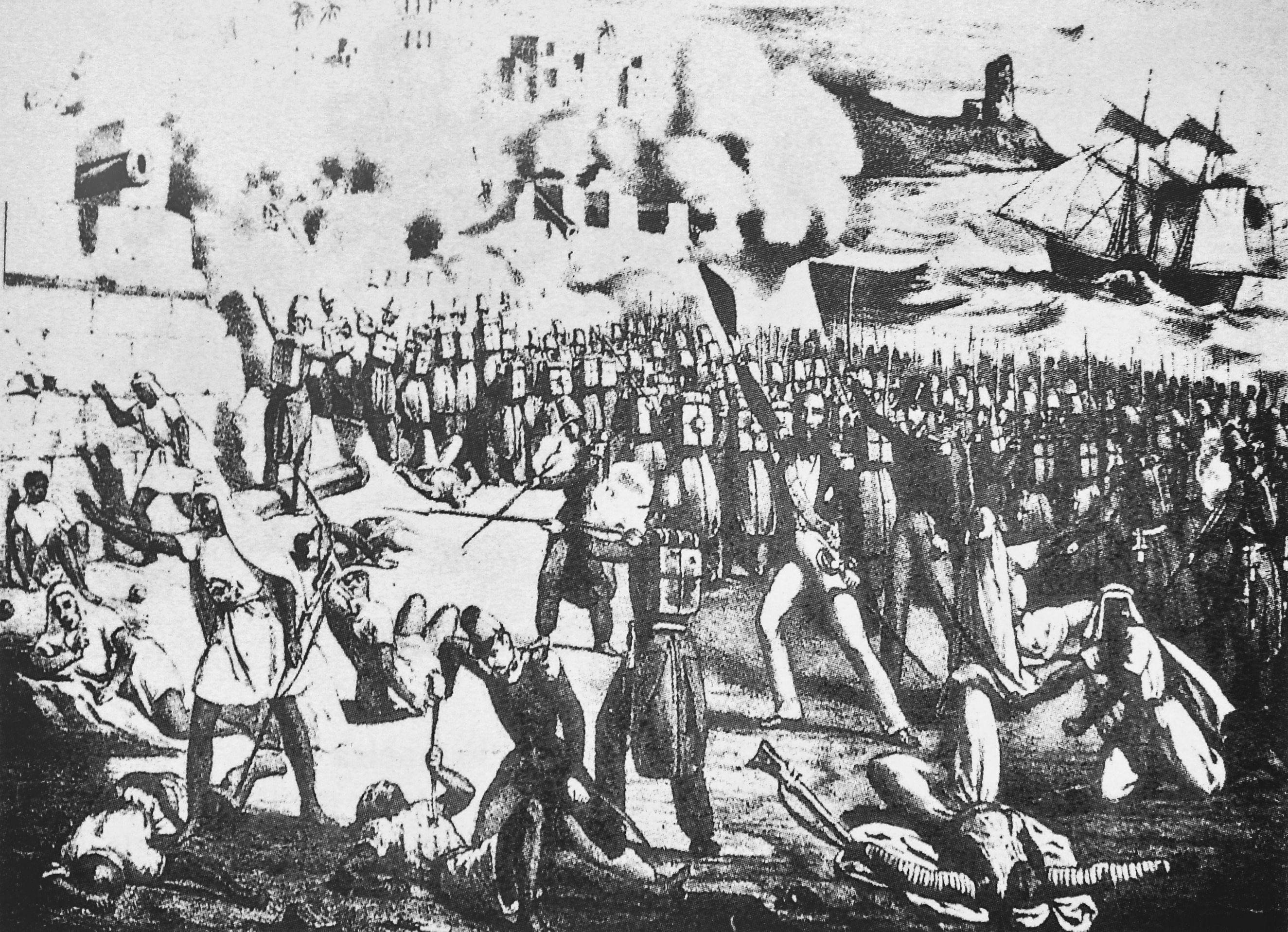 French_troops_disambarking_in_the_harbour_of_Essaouira_1844.